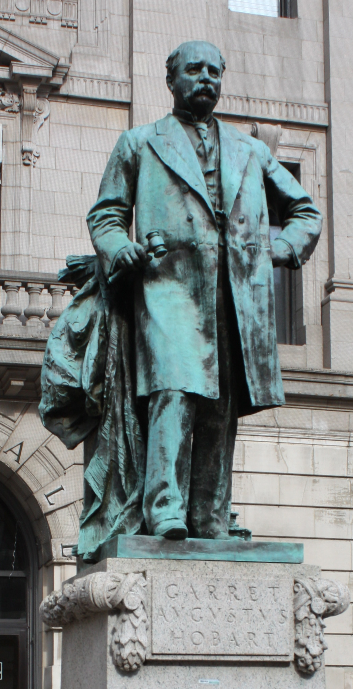 Statue of Garret Hobart by Philip Martiny in front of City Hall, Paterson, NJ. Statue in public domain as erected in 1903, which is equivalent to publication per Commons page on licensing. See image here in 1910 book, accompanying text description of dedication.